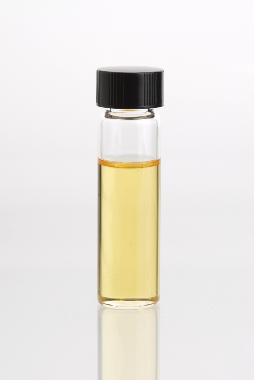 Glass vial containing Neroli Essential Oil